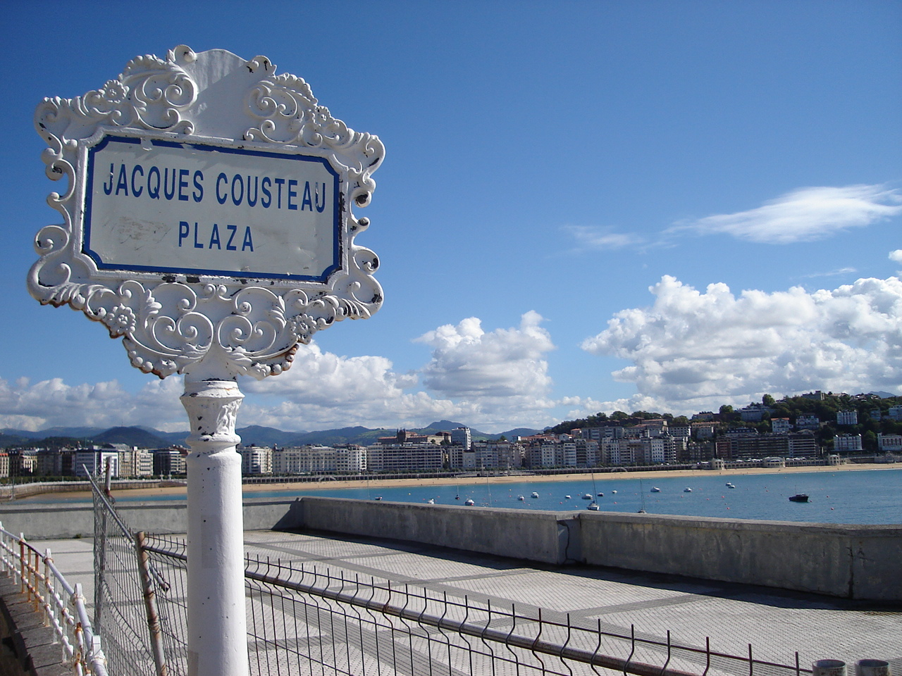 The Jacques Cousteau Plaza in San Sebastián, Spain